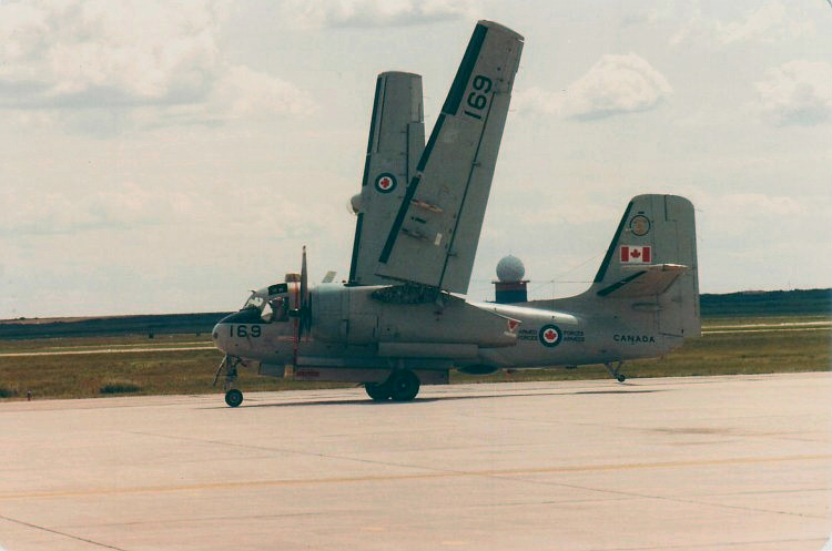 I took this photo of a CP-121 Tracker folding its wings while taxiing, at CFB Moose Jaw in 1982